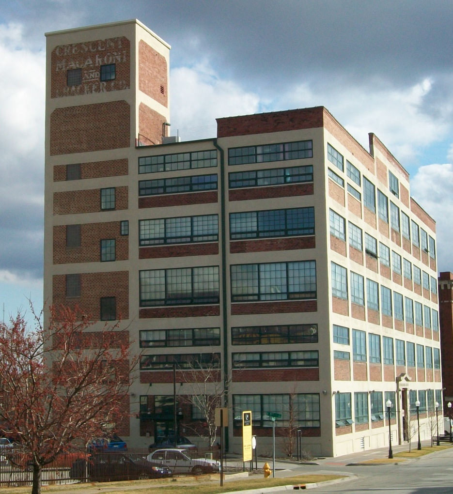 Crescent Macaroni and Cracker Company building in the Crescent Warehouse Historic District